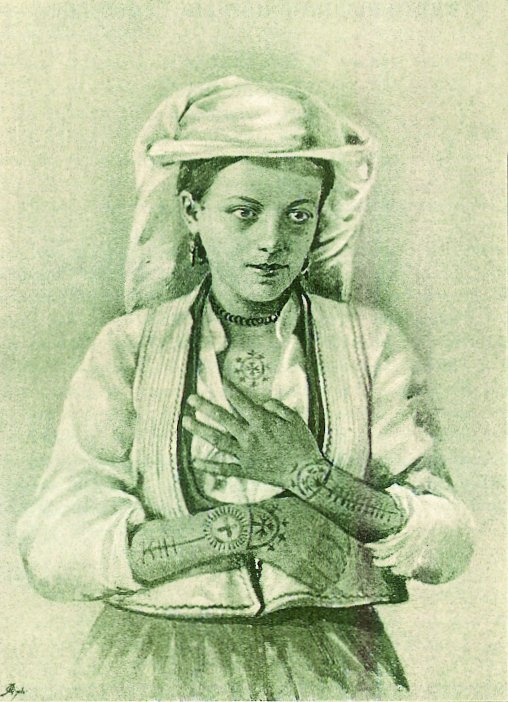 Tattoos of Cross on Croatian women in Bosnia and Herzegovina were defence from Ottoman Turks